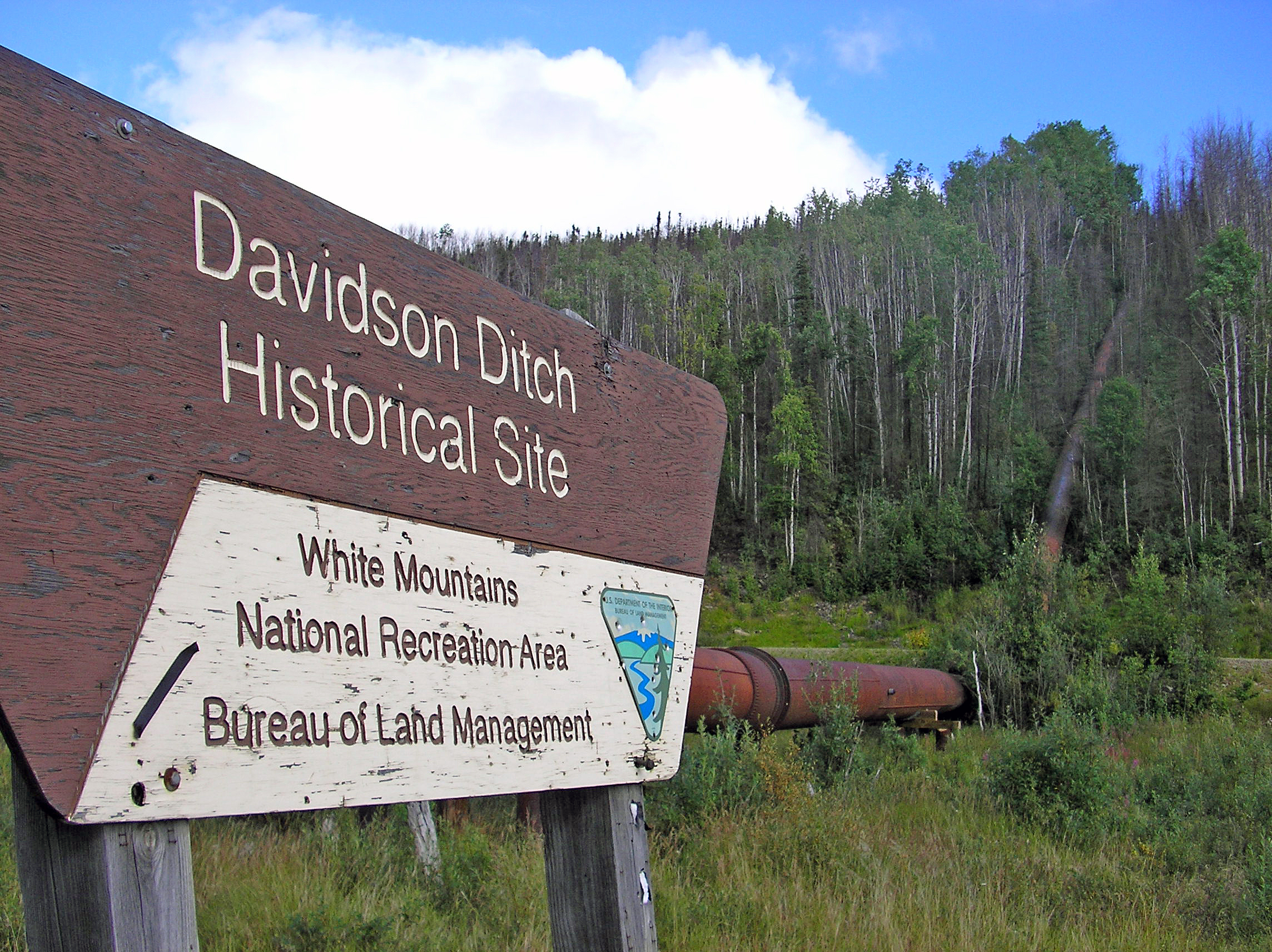 A metal pipeline composing part of the inverted siphon system of Davidson Ditch, a water conduit built in the 1920s in Interior Alaska to supply water to gold dredges near Fairbanks.